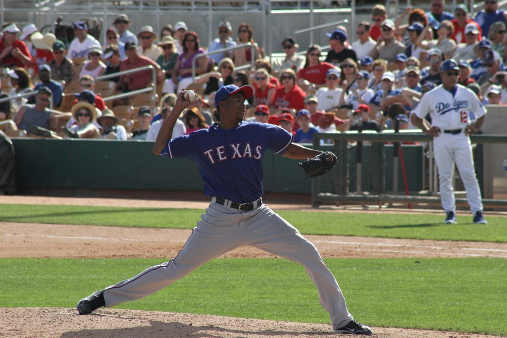 Alexi Ogando pitching for the Rangers against the LA Dodgers.